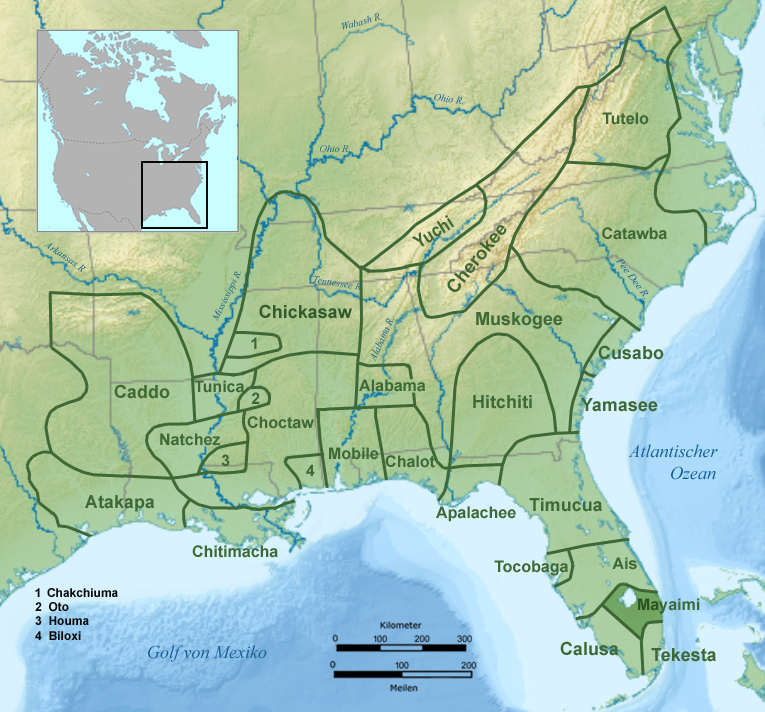 Tribal territory of Mayaimi during sixteenth century